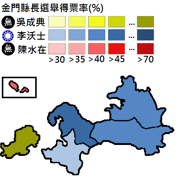 Kinmen magistrate election 2009